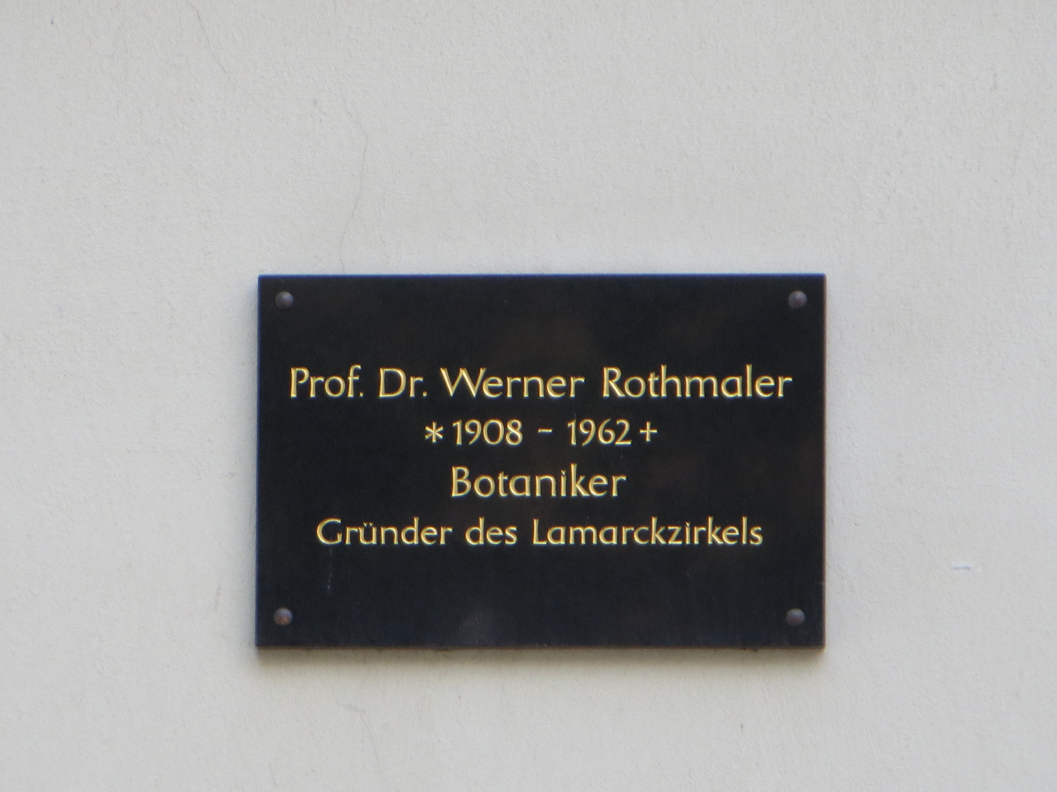 Plaque Goethestrasse 1 commemorating Werner Rothmaler